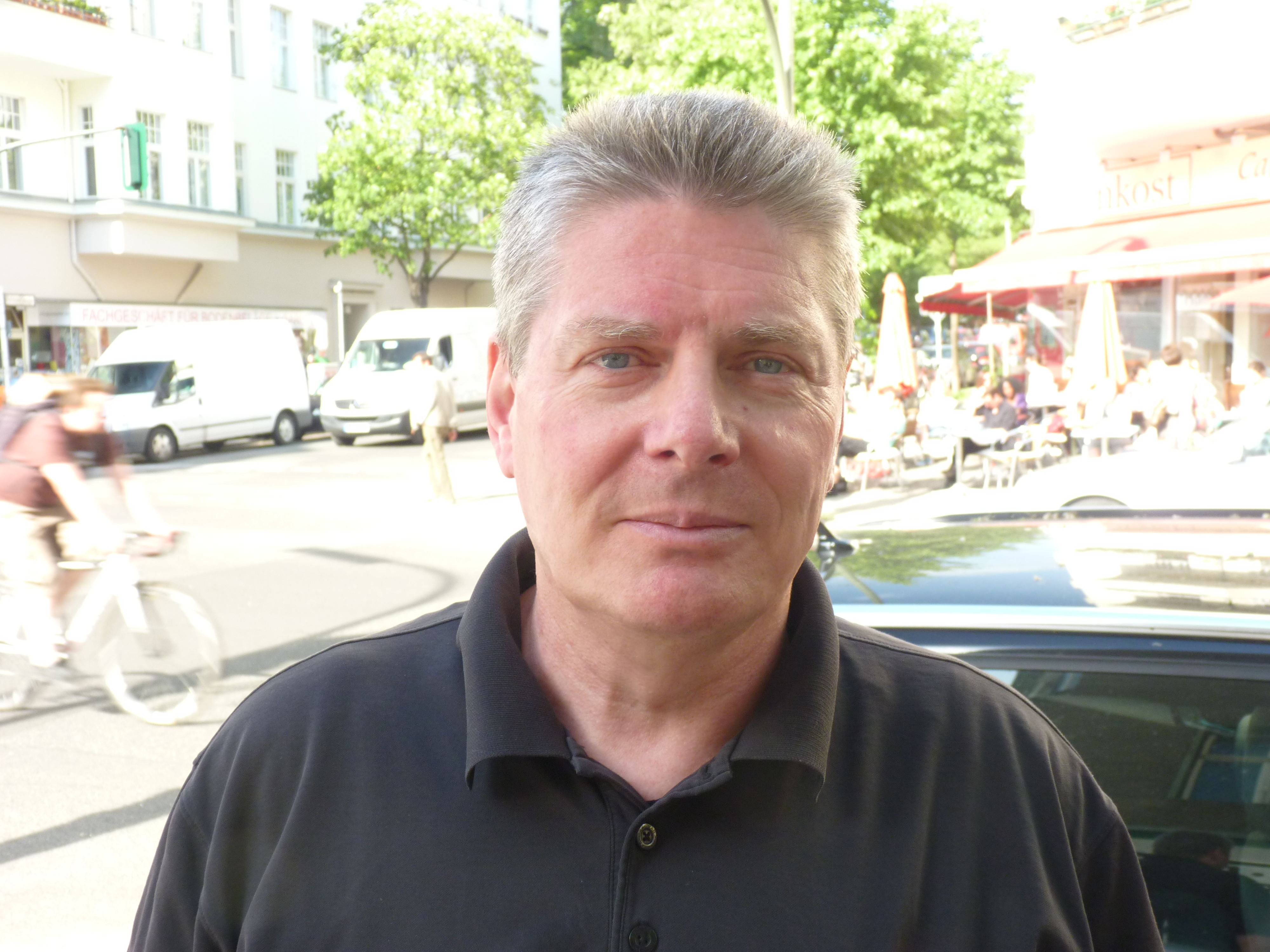 Dubbing author and director